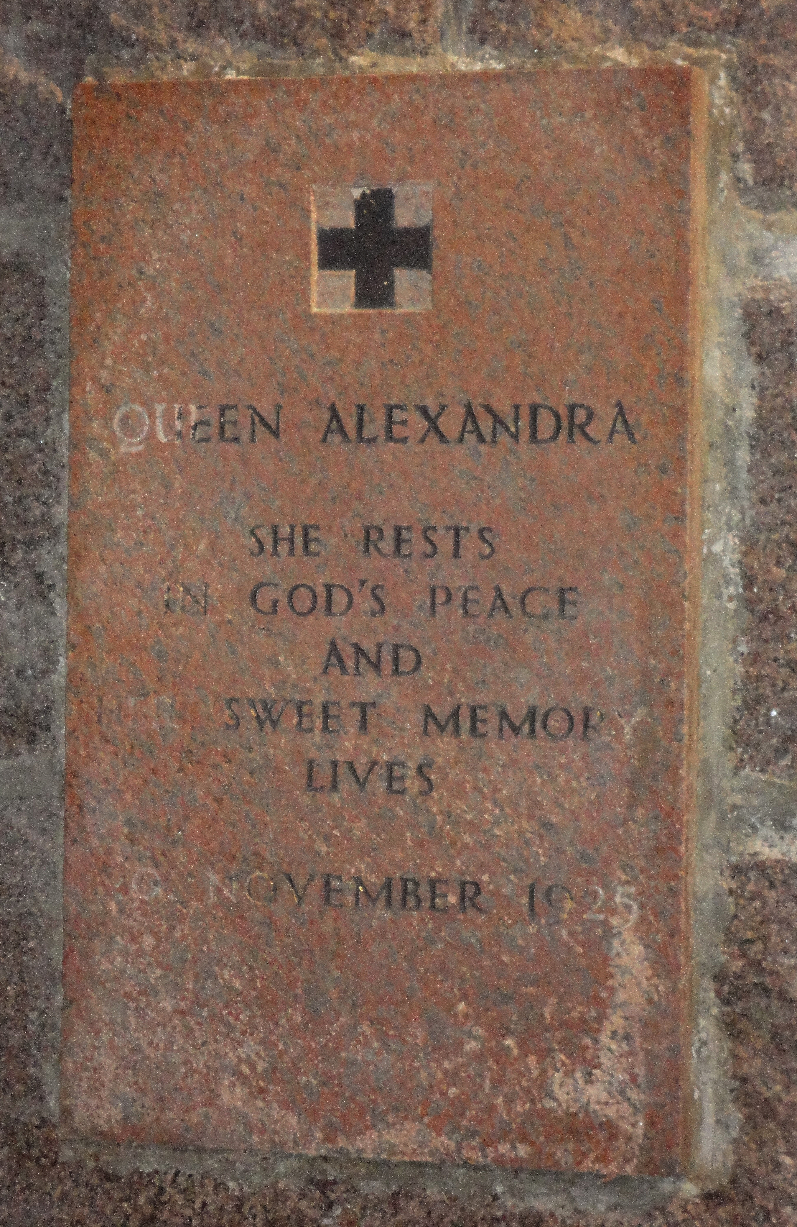 Braemar, Mar Lodge Estate, St Ninian's Chapel - wall plaque with inscription commemorating Queen Alexandra (1844–1925), wife of King Edward VII of the United Kingdom